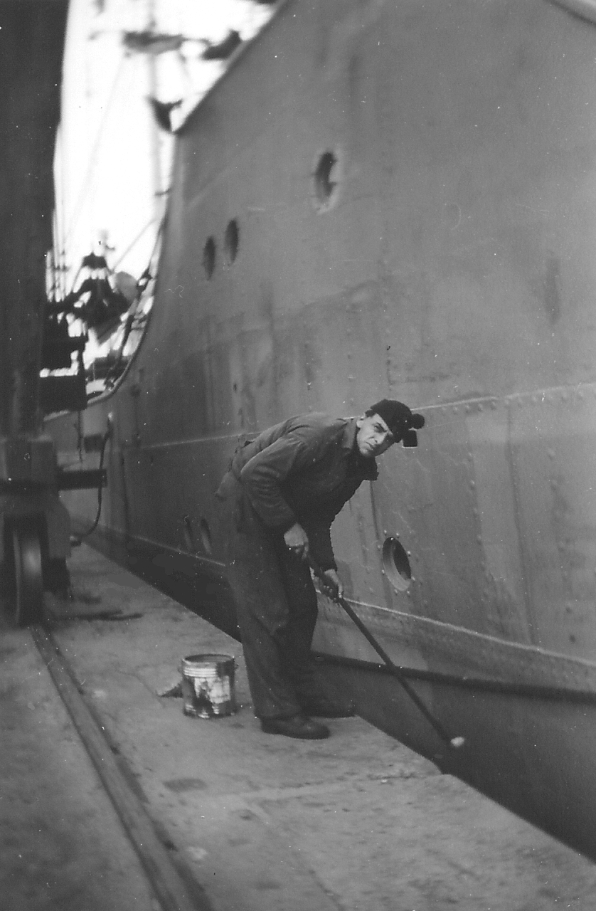 Moses, when painting the hull of the cargo vessel Elfriede - 1956